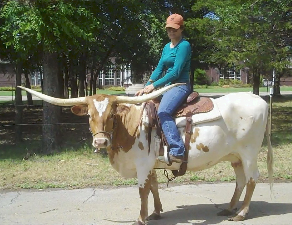 four year old Texas Longhorn cow Premier Preference saddle trained to ride